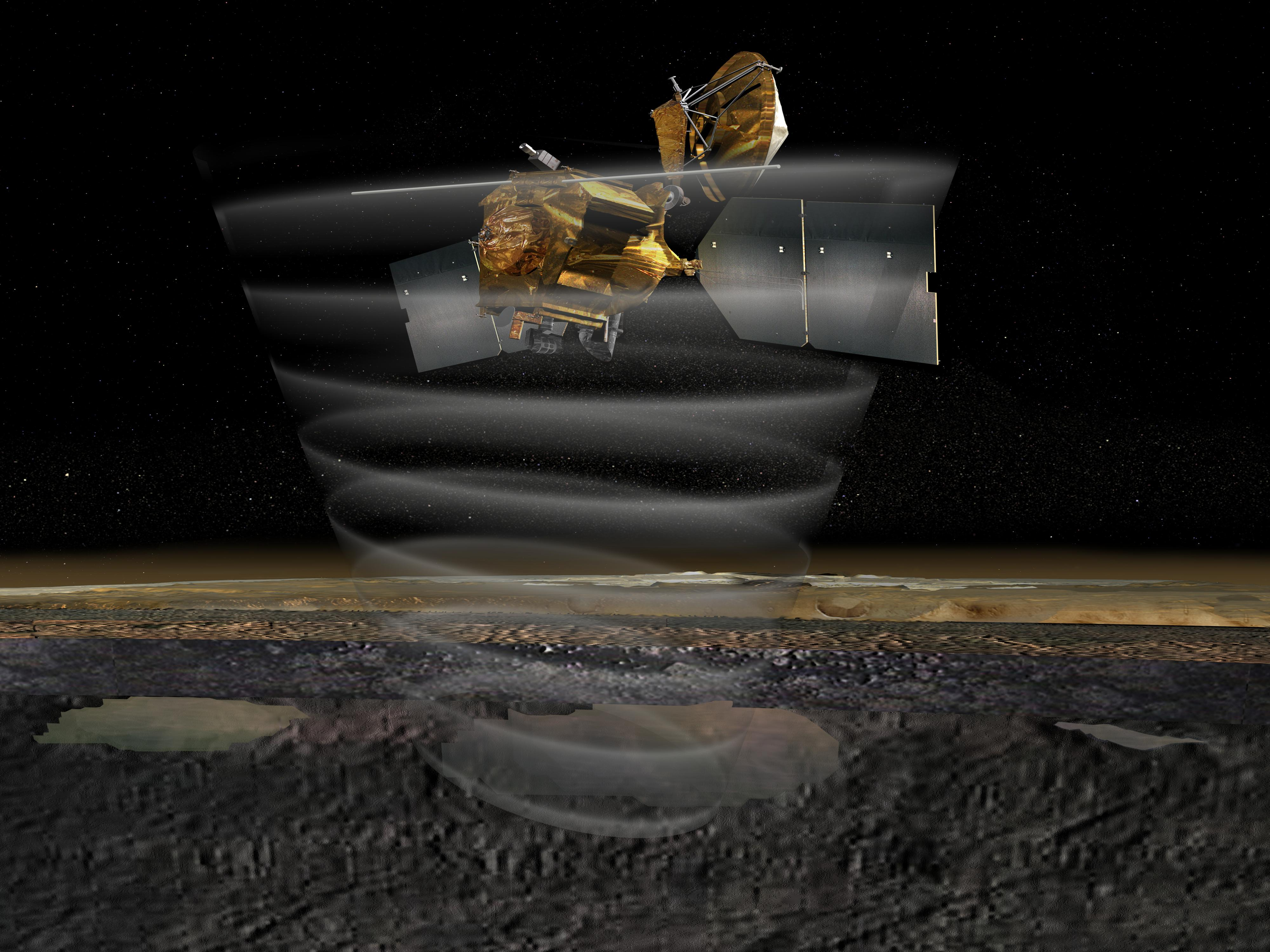 This artist's concept of NASA's Mars Reconnaissance Orbiter highlights the spacecraft's radar capability. The Shallow Subsurface Radar instrument (SHARAD) includes the long antenna that extends horizontally from the spacecraft. The radar is pictured "beaming" down under the surface of Mars. The foreground of the image is a cross section of the planet, showing the surface, the layers below and, ultimately, reservoirs of ice or liquid water. The instrument will look into the first few hundred feet below the Martian surface, as deep as one kilometer.